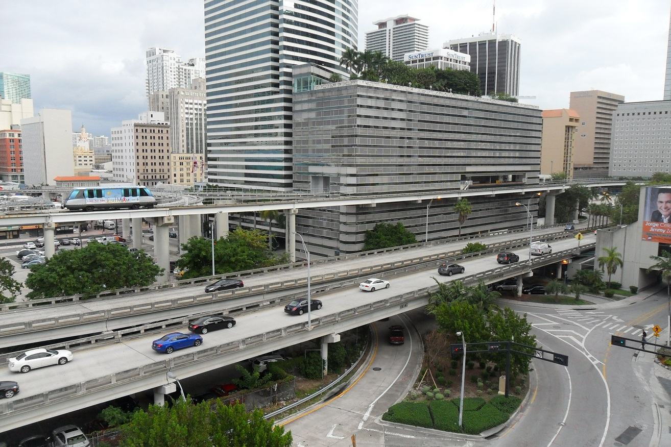 Miami Downtown, FL, USA